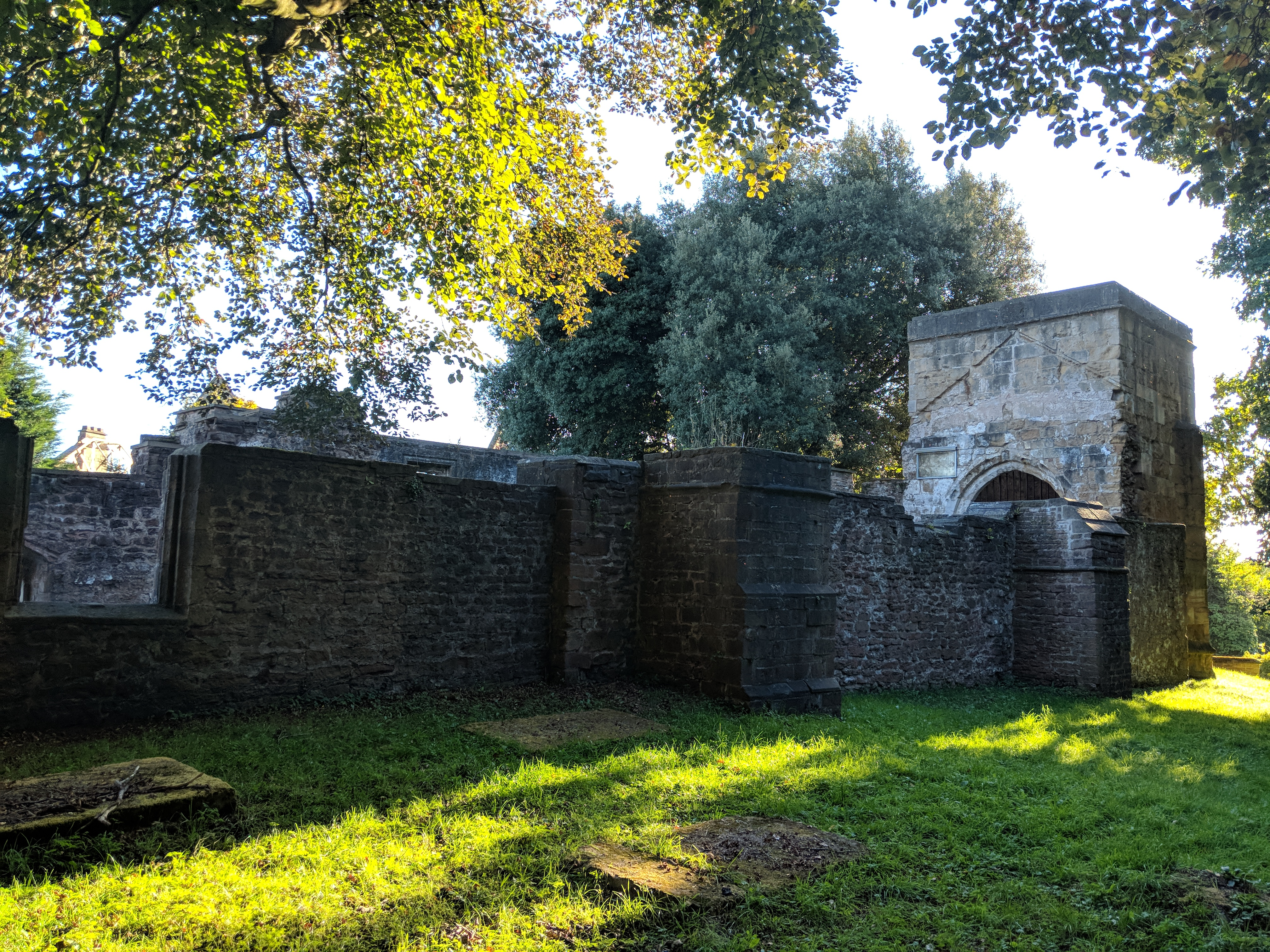 Annesley Old Church, Nottinghamshire Wikidata has entry Q4769026 with data related to this item.